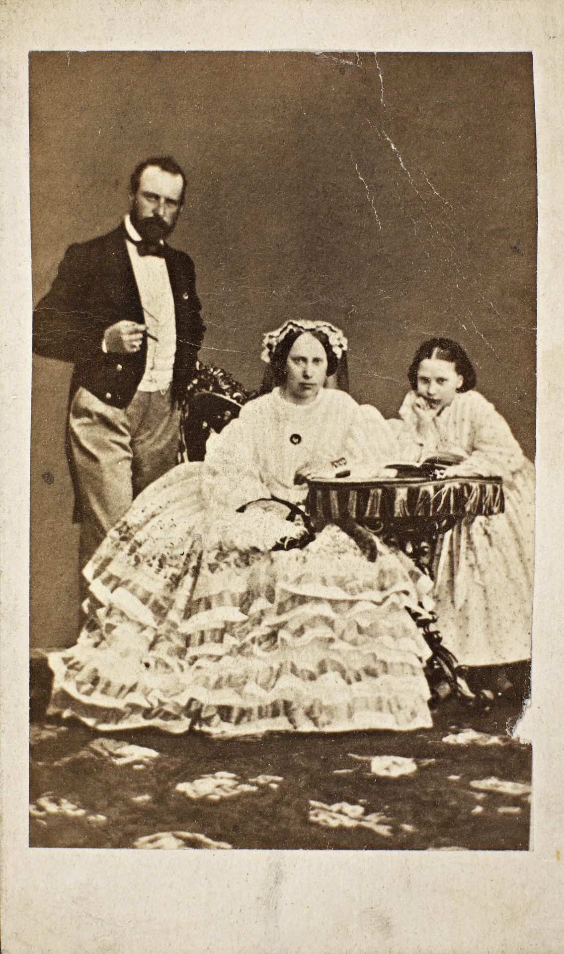 Tittel / Title: Portrett av Kong Karl IV, Dronning Louise og datteren Louise Motiv / Motif: Visittkort. Norsk-svensk konge fra 1859-1872. I Sverige het han Carl XV, i Norge Karl IV. Dato / Date: ukjent / unknown Fotograf / Photographer: ukjent / unknown Eier / Owner Institution: Nasjonalbiblioteket / National Library of Norway Lenke / Link: Bildesignatur / Image Number: blds_01077